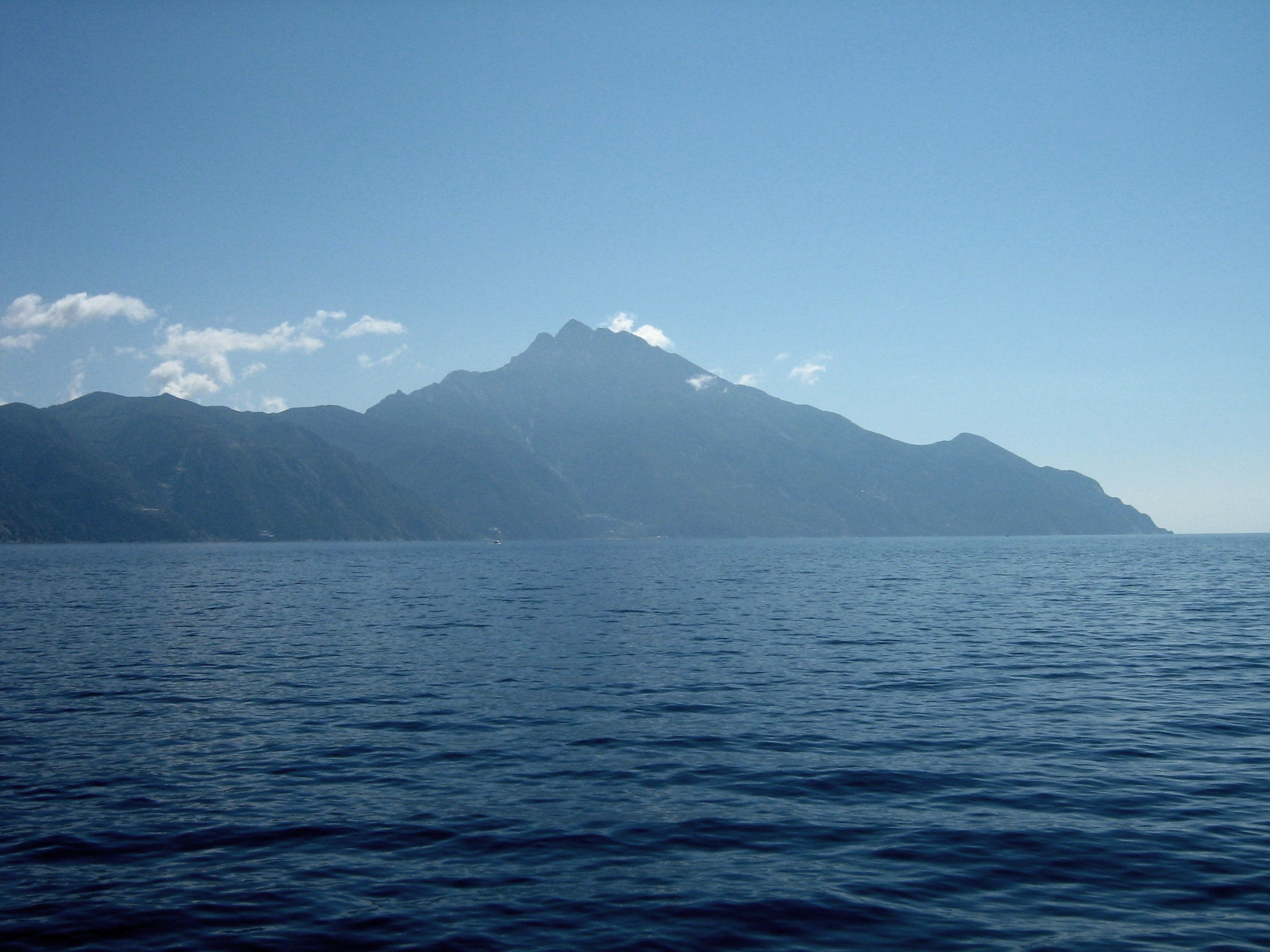 Mount Athos